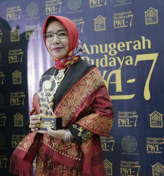 Indonesian Poetess Deknong Kemalawati at the Banda Aceh Cultural Prize Award Ceremony (2018)